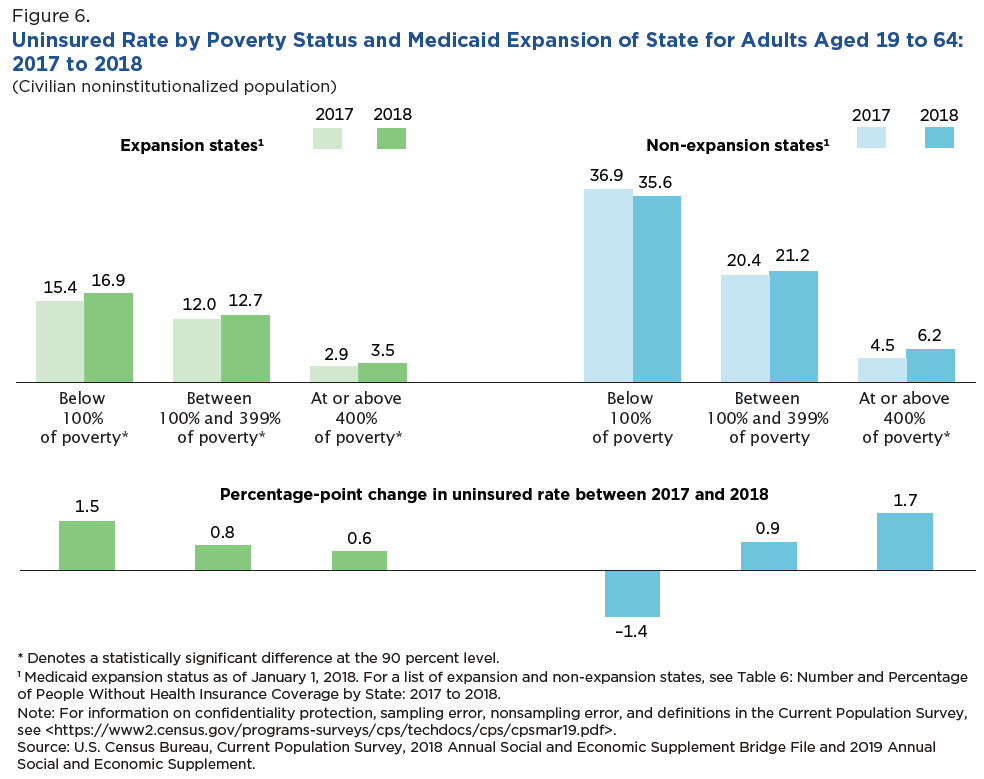 States that expanded Medicaid under the ACA have a lower uninsured rate